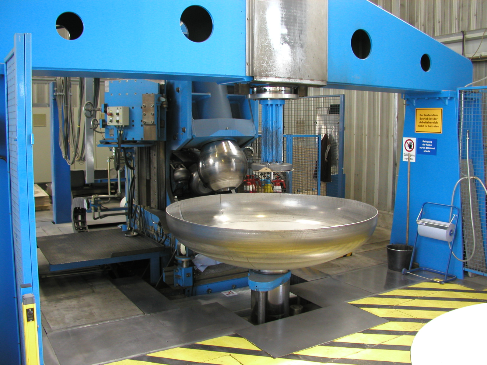 Production machine. Own work, Borowski, 13th July 2006